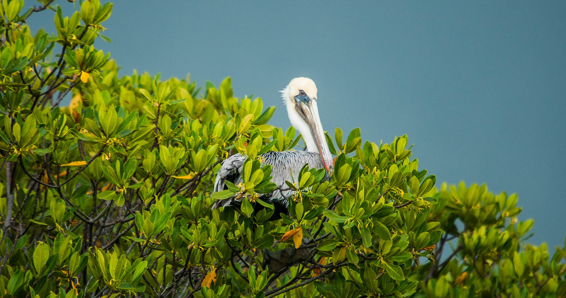 Flora and fauna in La Parguera, Lajas, Puerto Rico